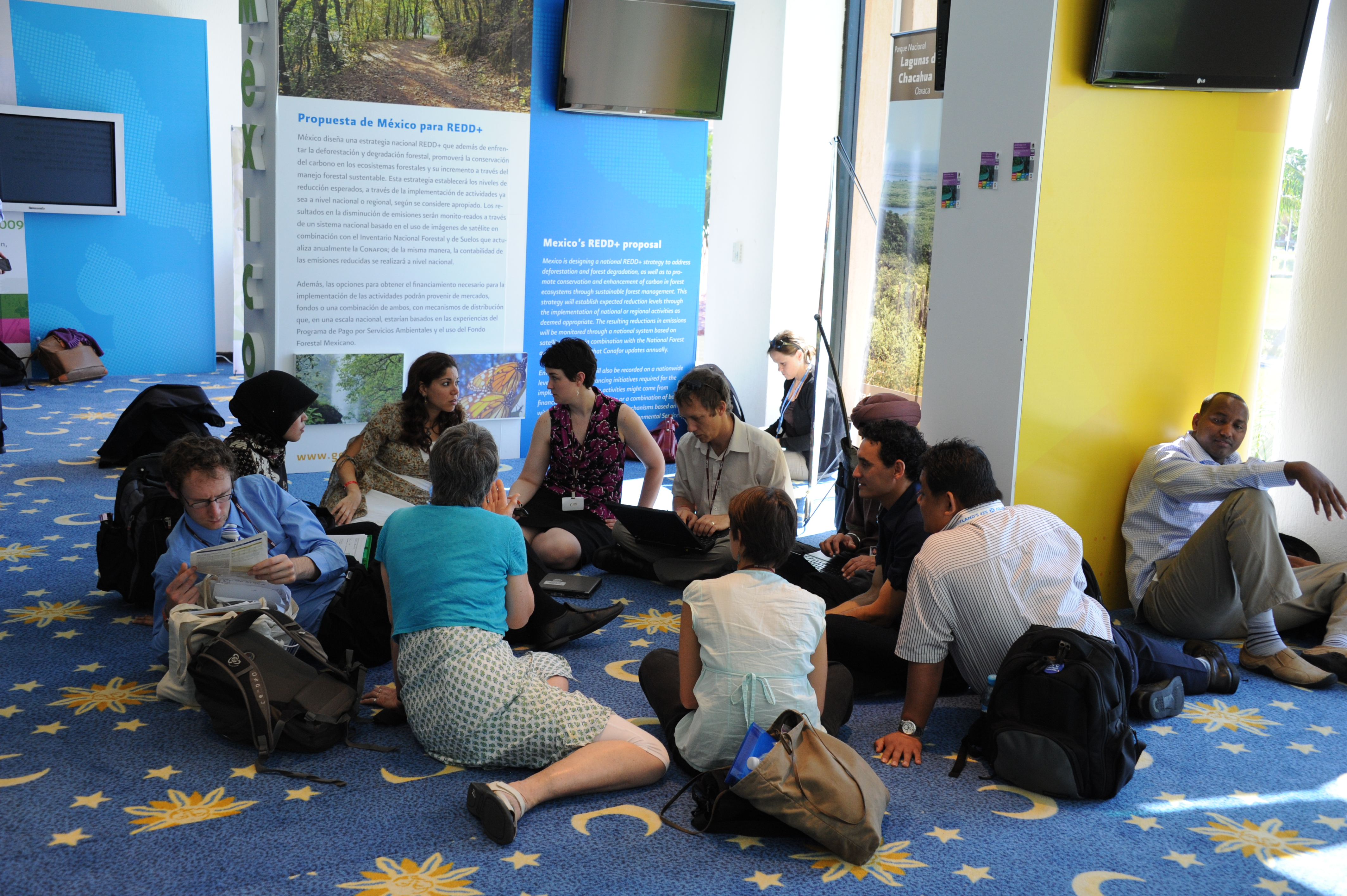 UN Climate Talks 2010. Cancun, Mexico. by United Nations